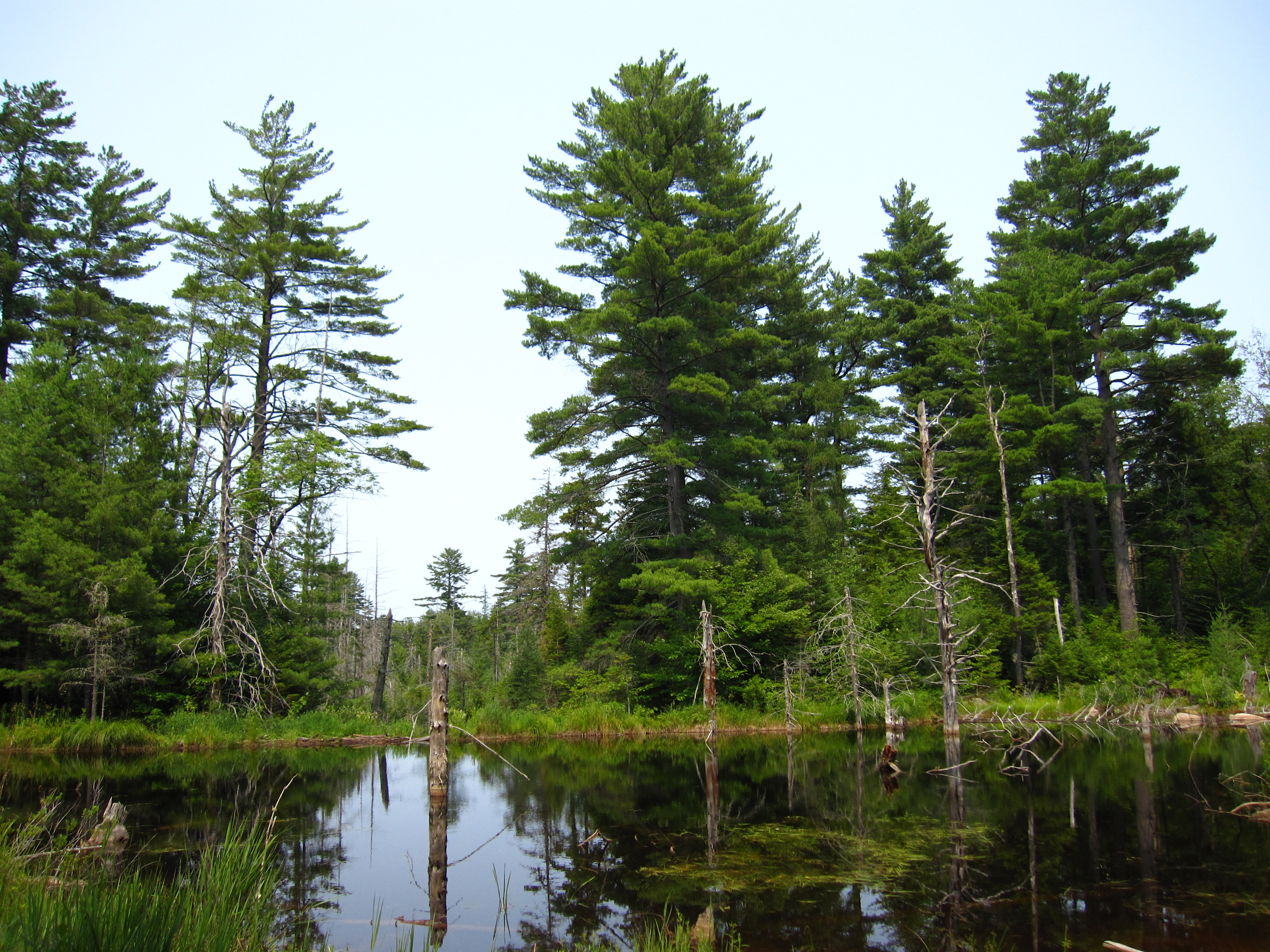 Old growth Eastern White Pine Pinus strobus and beaver pond in 'The Plains', Five Ponds Wilderness Area, St Lawrence Co., New York, USA.